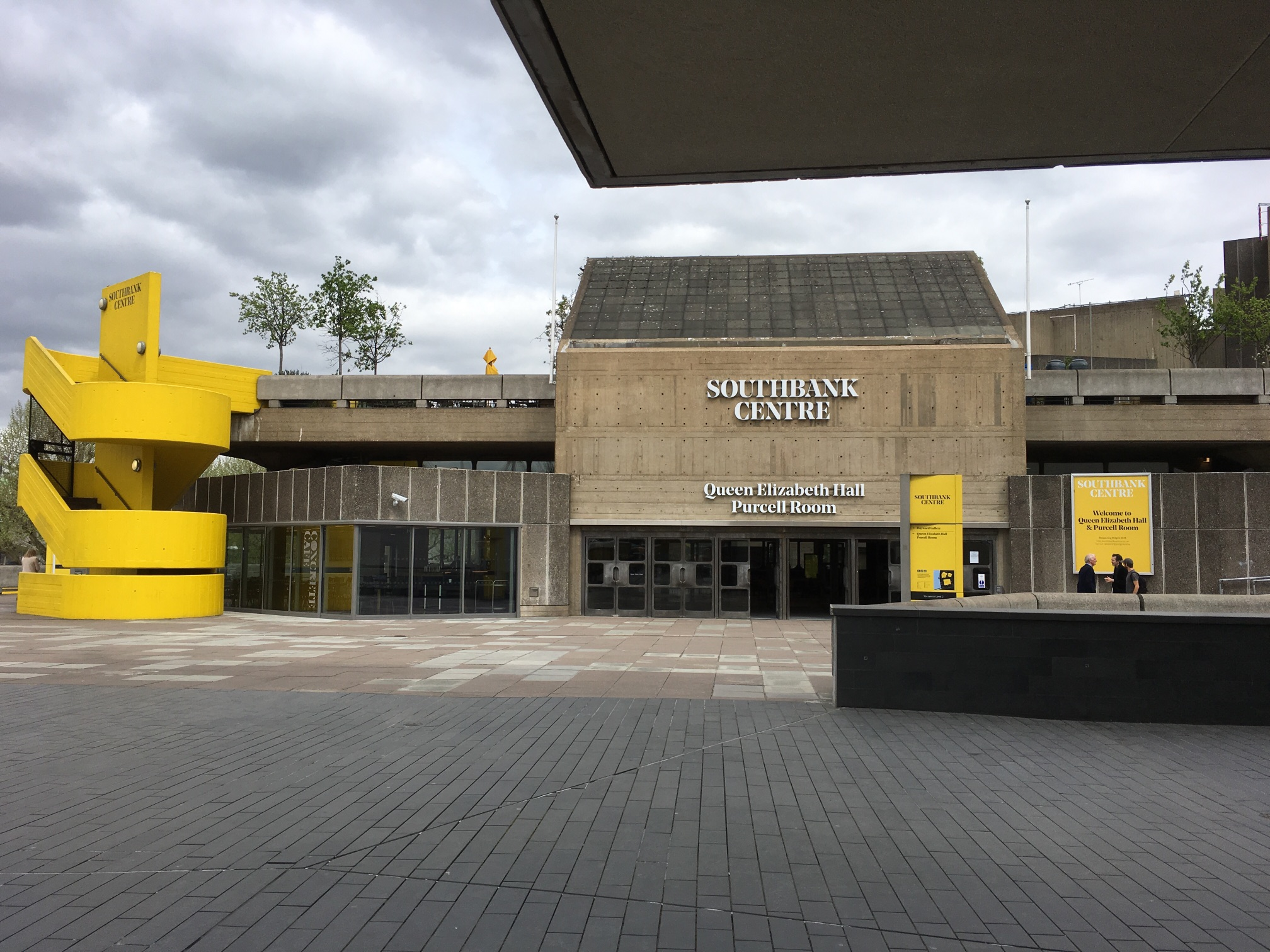 Queen Elizabeth Hall foyer building entrance in 2018, after renovation